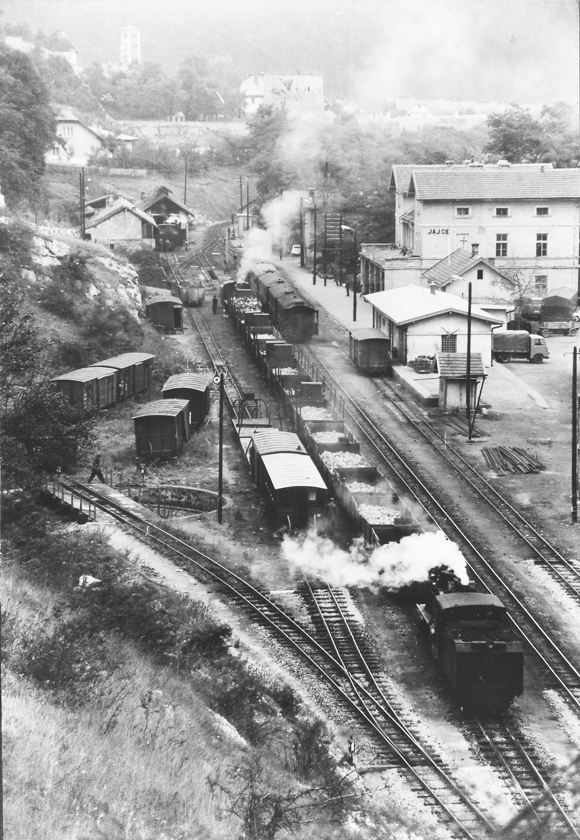 Jaice railway station in 1966. The route (Sarajevo -) Lasva - Jaice was part of the offical narrow gauge railways in Bosnia-Hercegovina, the appendix Jaice - Srnetica part of the former Steinbeis (Forestry)Railway, founded of the german industrial (papermaking) Otto Steinbeis. Photo by the german engineer Michael Breitschwerdt